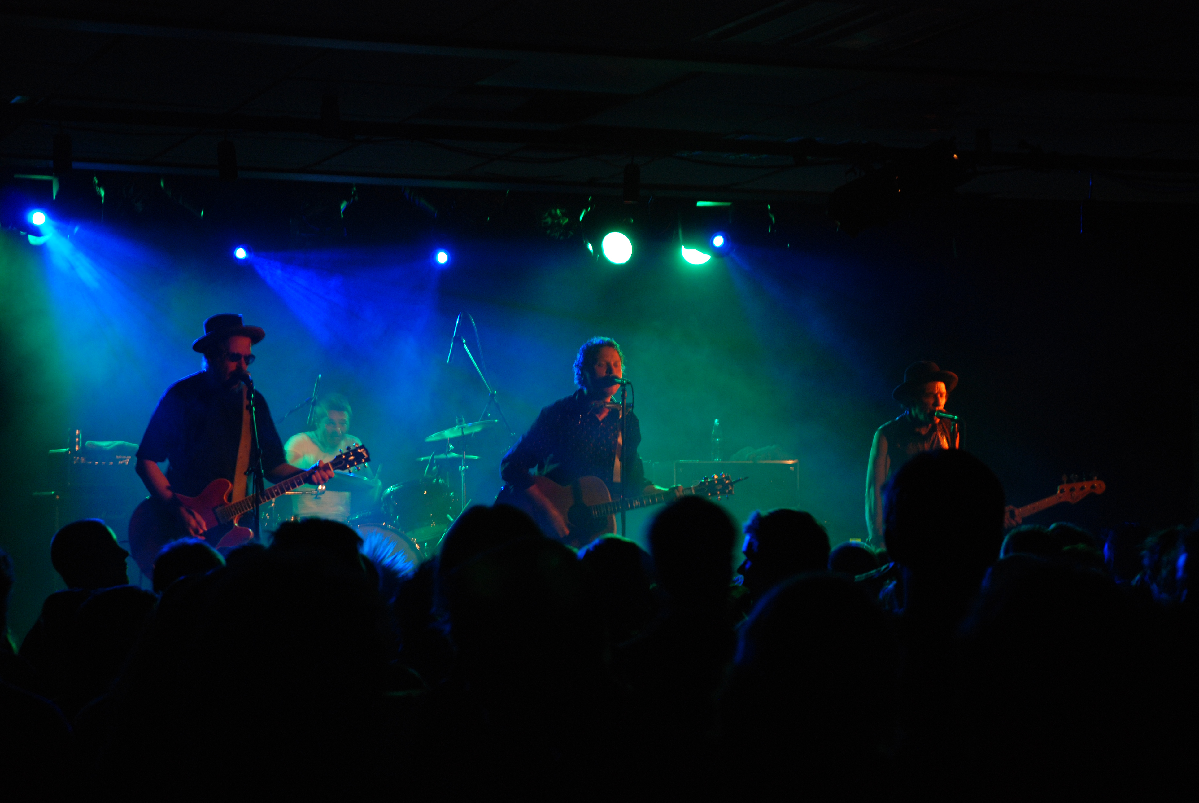 CC Cowboys live at Hydranten, in Hamar, Hedmark, Norway.